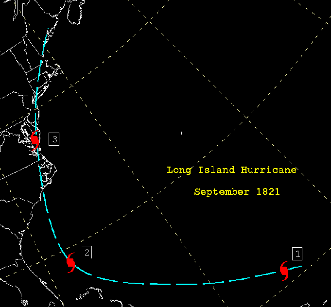 From this is a track map of the 1821 Norfolk and Long Island Hurricane.